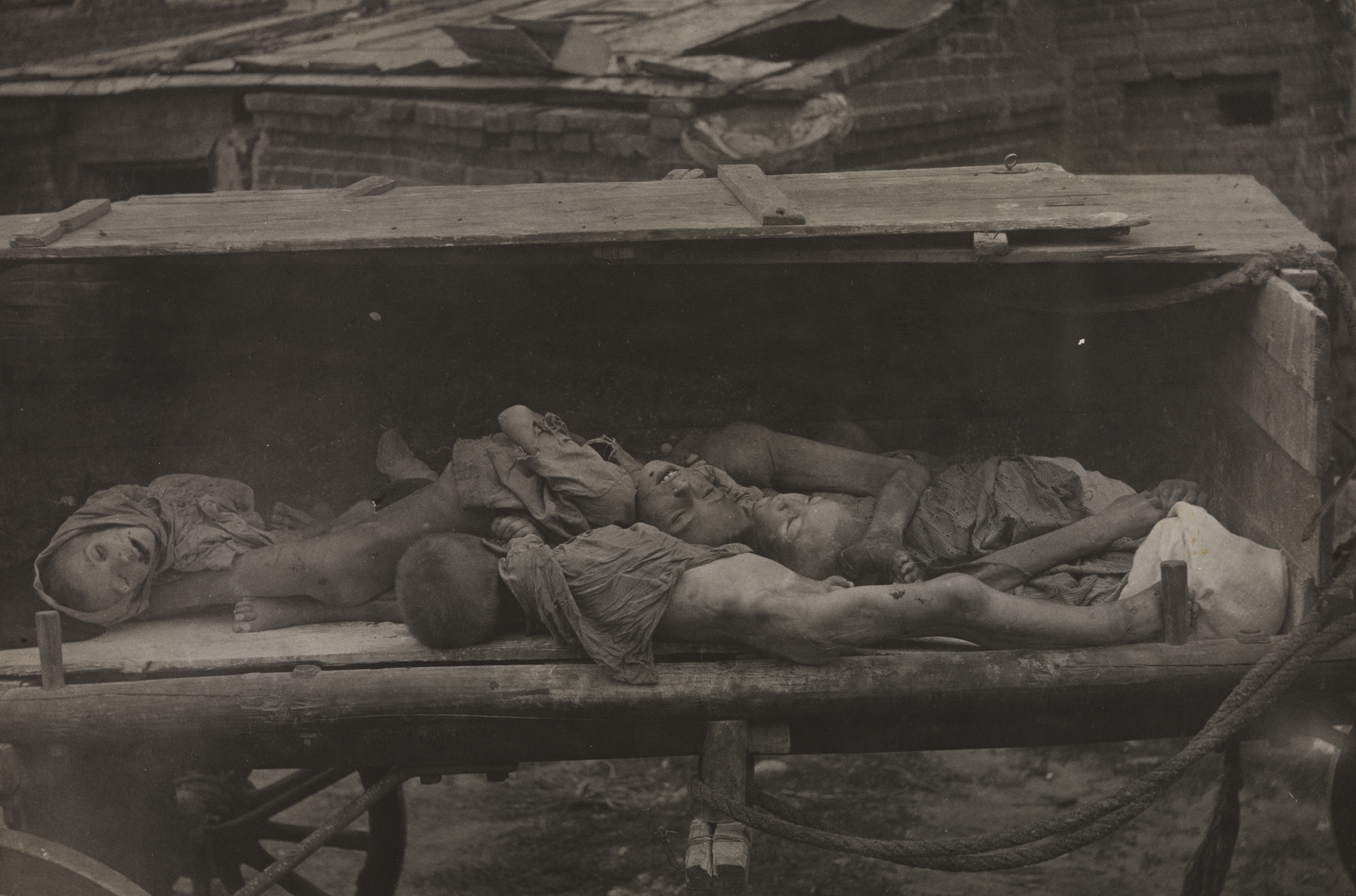 Children's corpses collected on a wagon (Kujbysev).